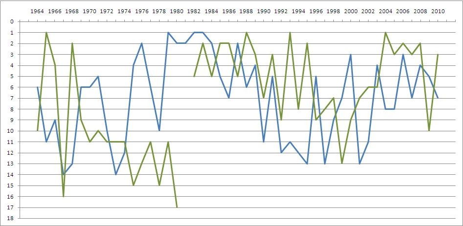 Graph charting the finishing league postions of HSV and Werder Bremen in the Bundesliga from its foundation until the 2010 season.